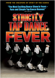 This is a poster for the show Strictly Tap Dance Fever, a show by theatre producer David King.